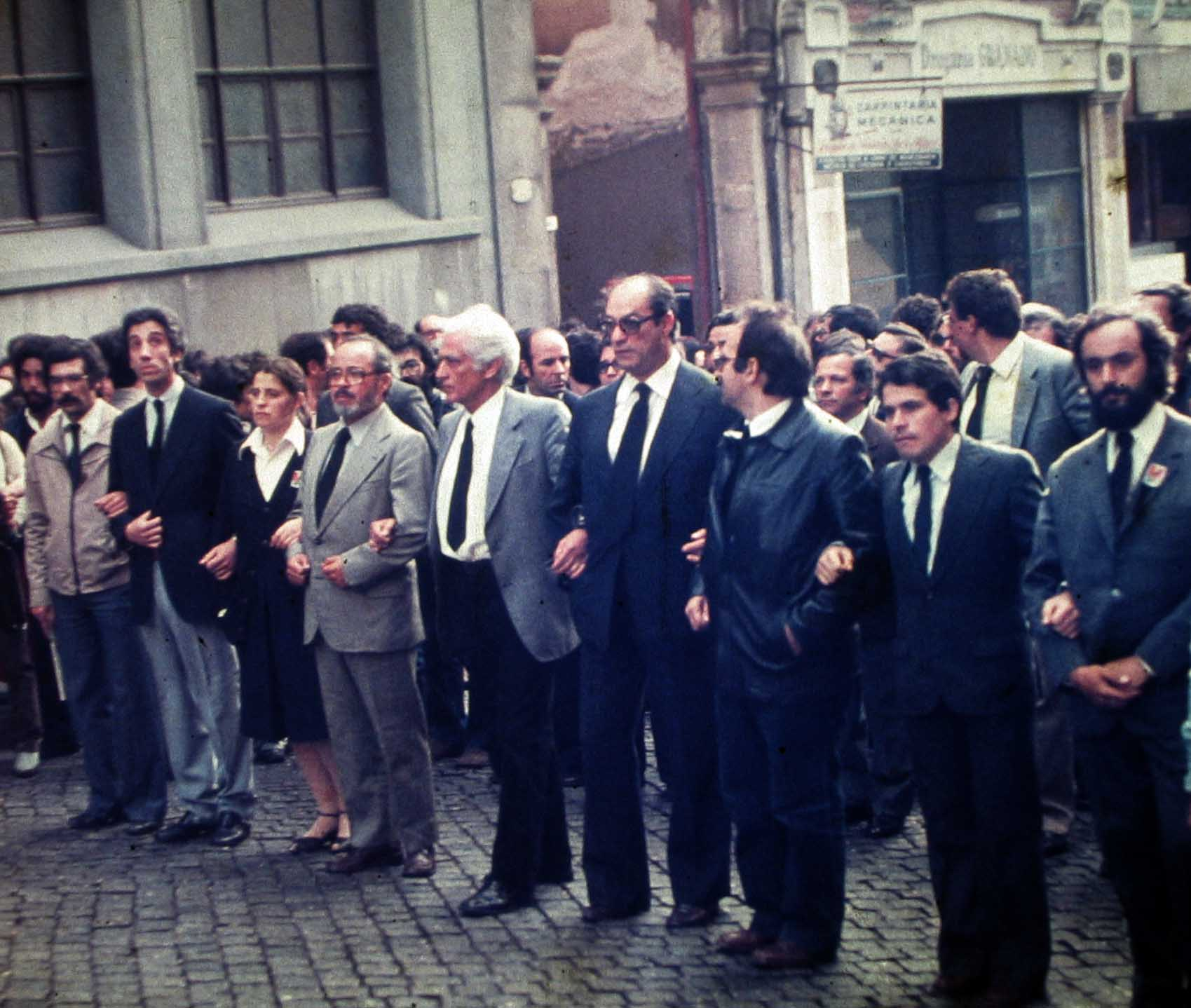 Álvaro Cunhal, a demonstration in Oporto on May 5, 1982